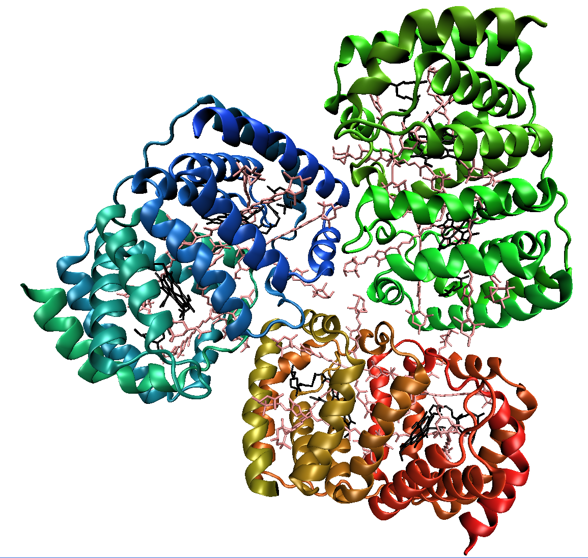 Trimer of the peridinin-chlorophyll-protein from Amphidinium carterae (PDB ID 1PPR), illustrating the alpha solenoid protein fold. Peridinin pigment molecules are shown in pink and chlorophyll molecules in black.